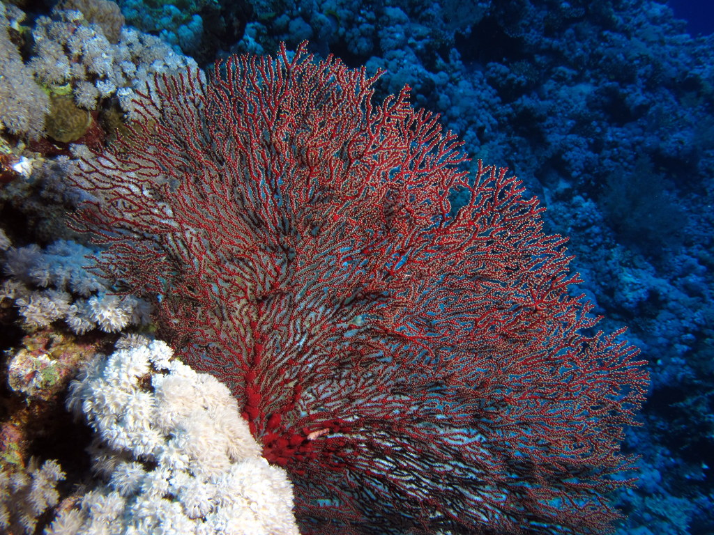 Soft corals, gorgonian and slope at Little Brother, Red Sea, Egypt #SCUBA